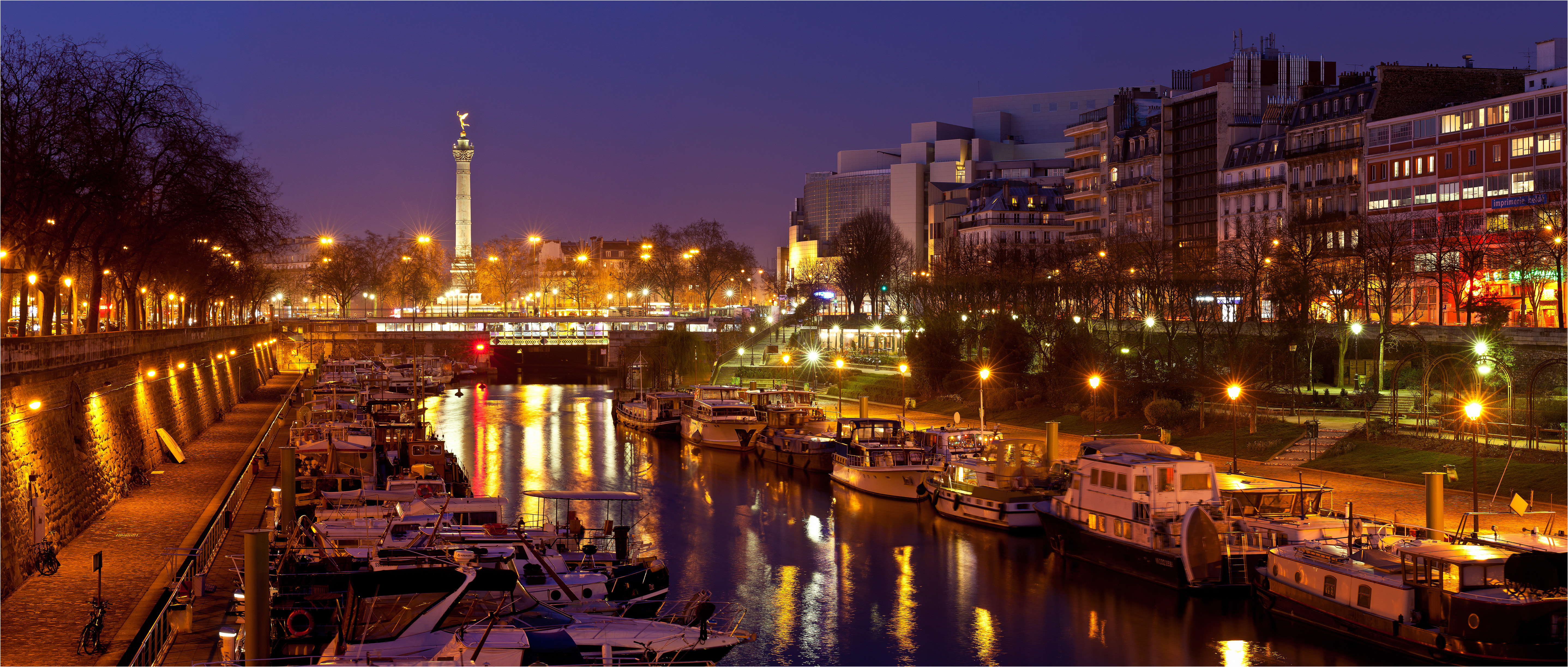 Place de la Bastille and port de l'Arsenal, as seen from the passerelle Mornay.